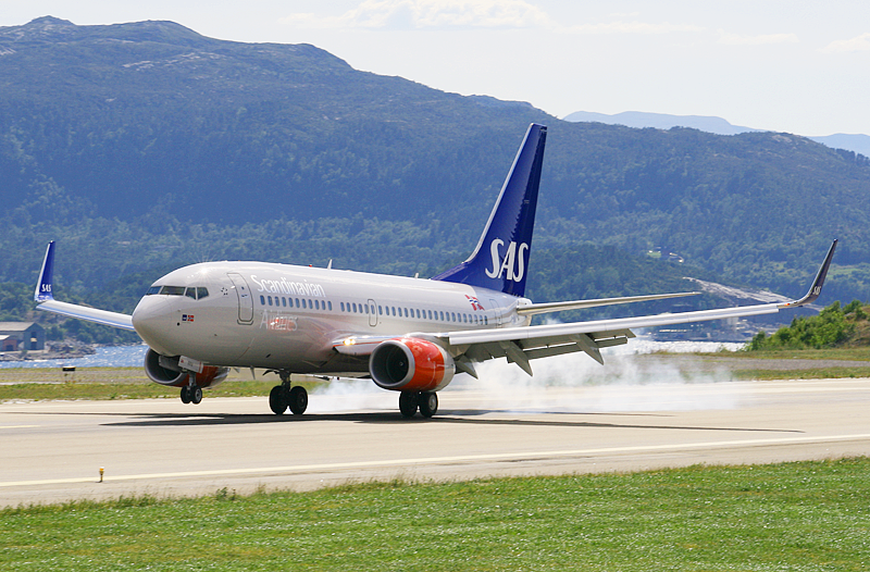 SAS B737 at KSU